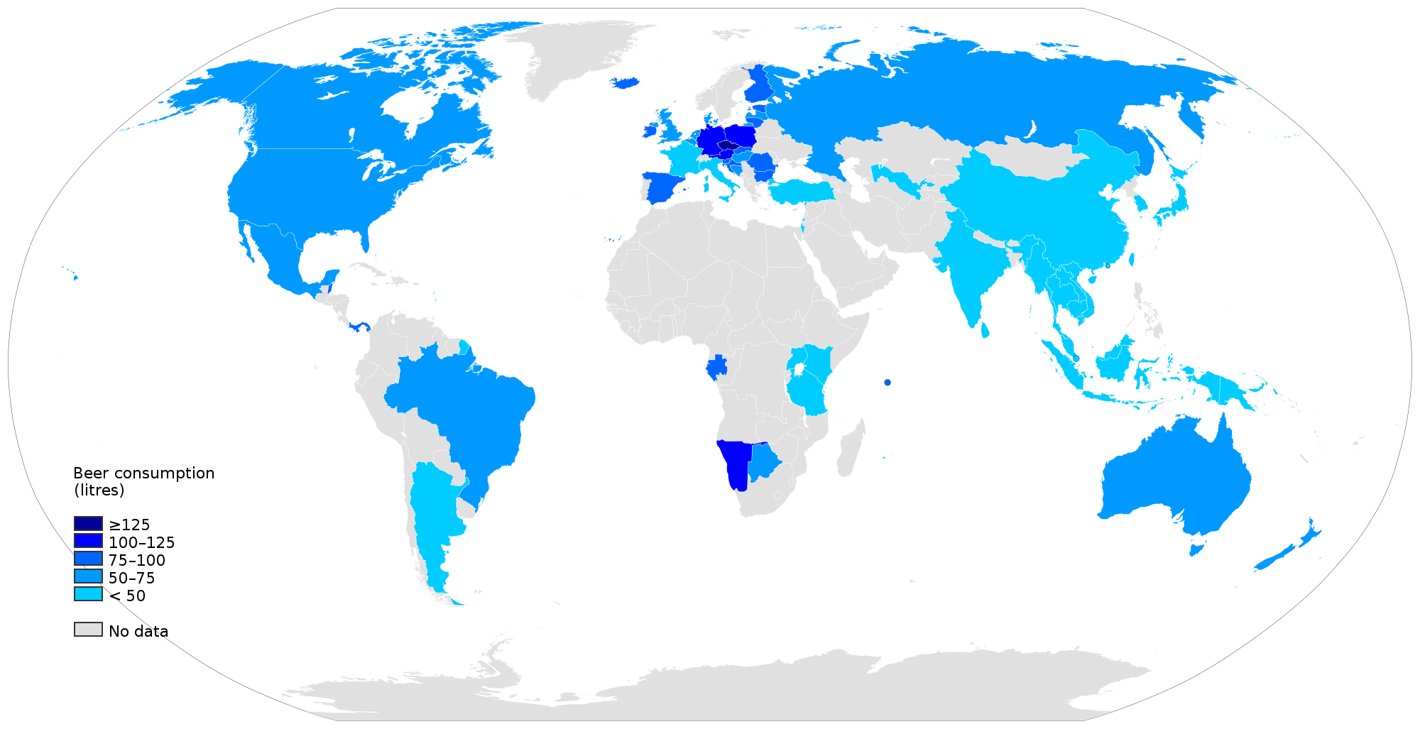 A map of the world coloured by annual beer consumption per person in litres